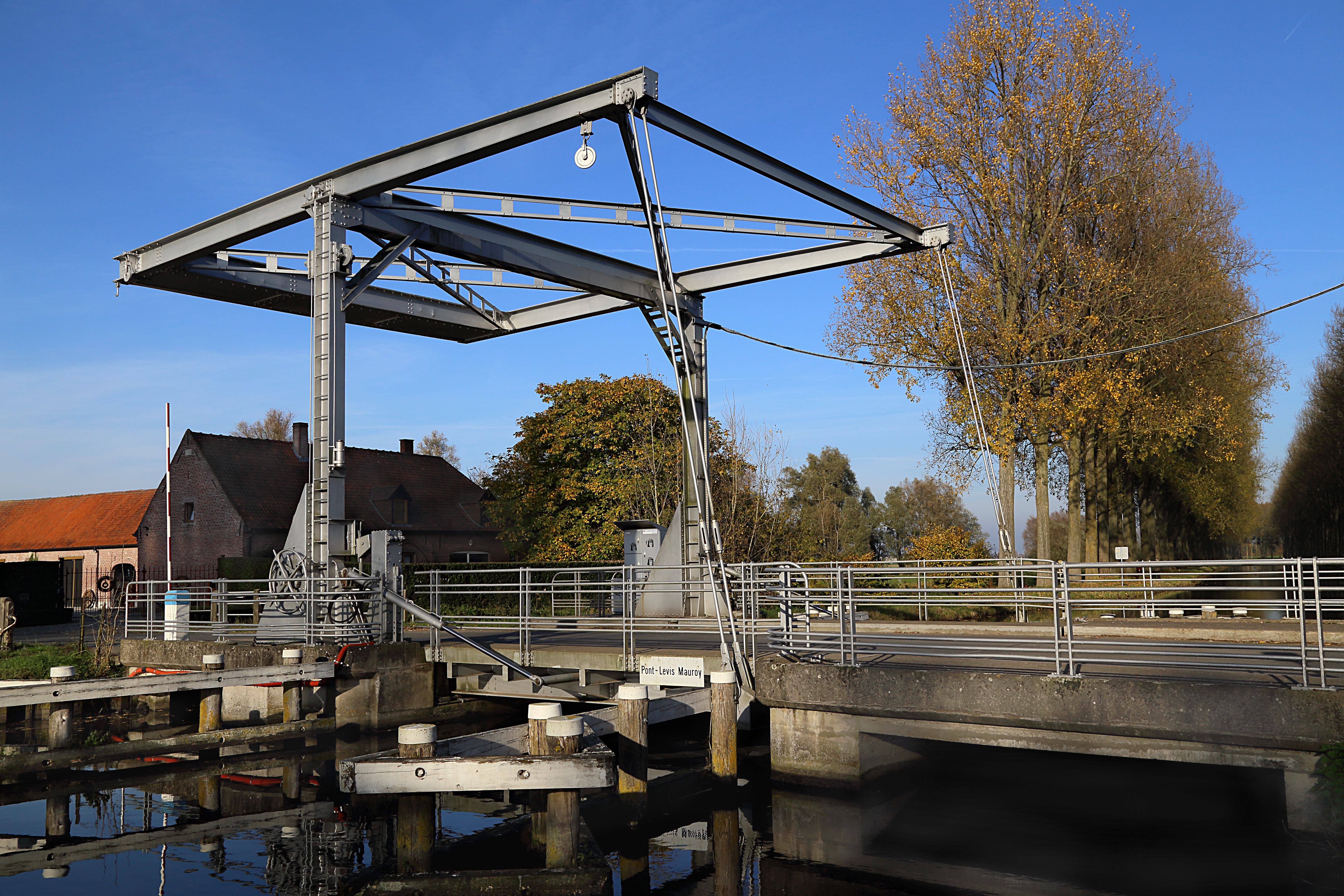 The drawbridge Mauroy, on the canal de l'Espierres in Saint-Léger (Estampuis), Belgium.